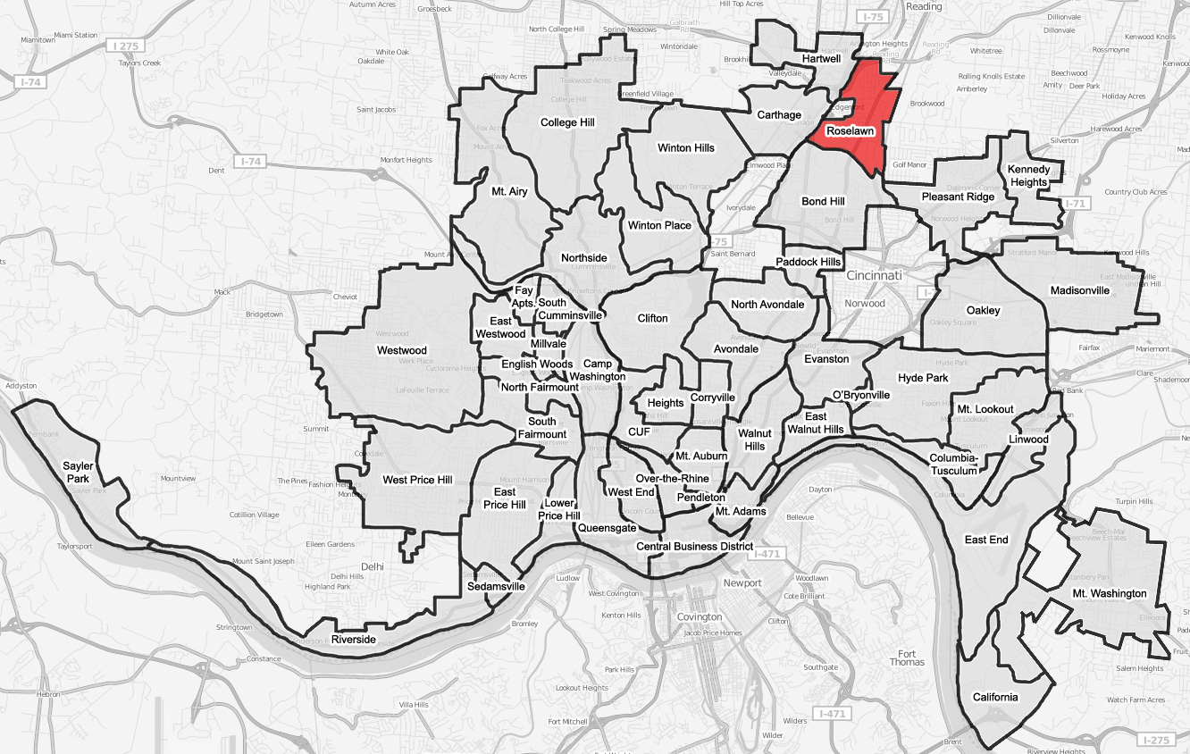 A map of the neighborhood of Roselawn within Cincinnati, Ohio. Neighborhood lines are based on information from This street map is derived from a free map.